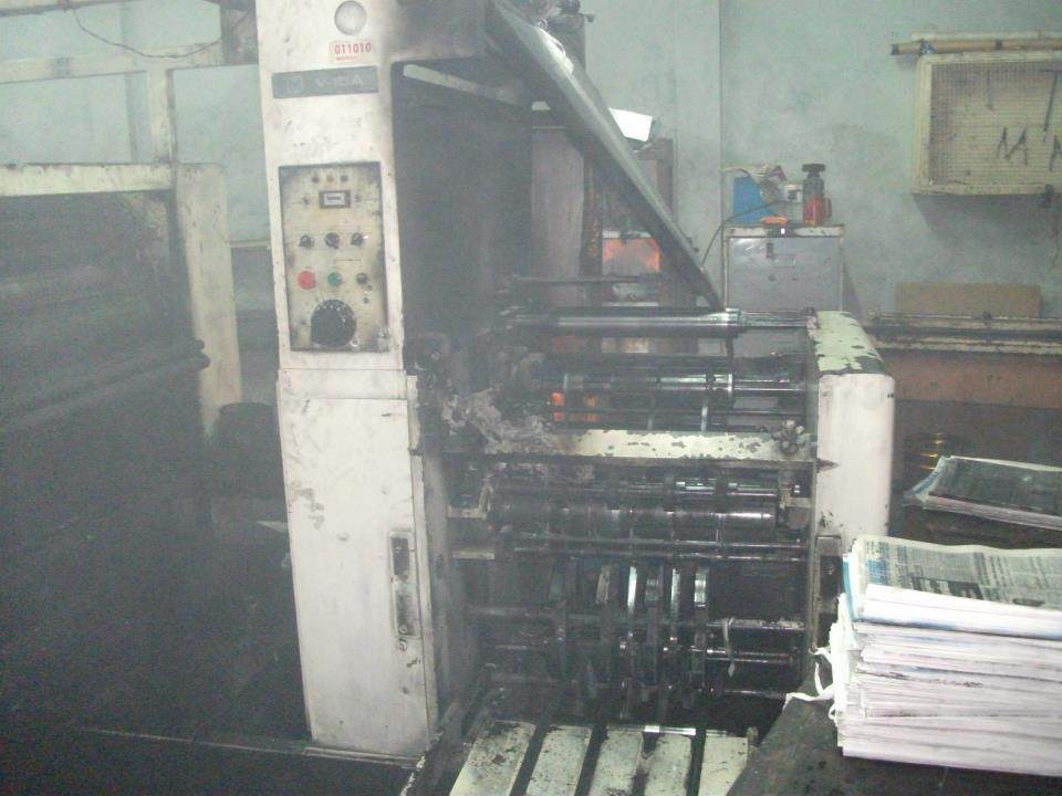 The printing section of the Uthayan Tamil newspaper office in Jaffna has been set on fire by an unidentified armed group at around 5 am on 13th April, 2013.